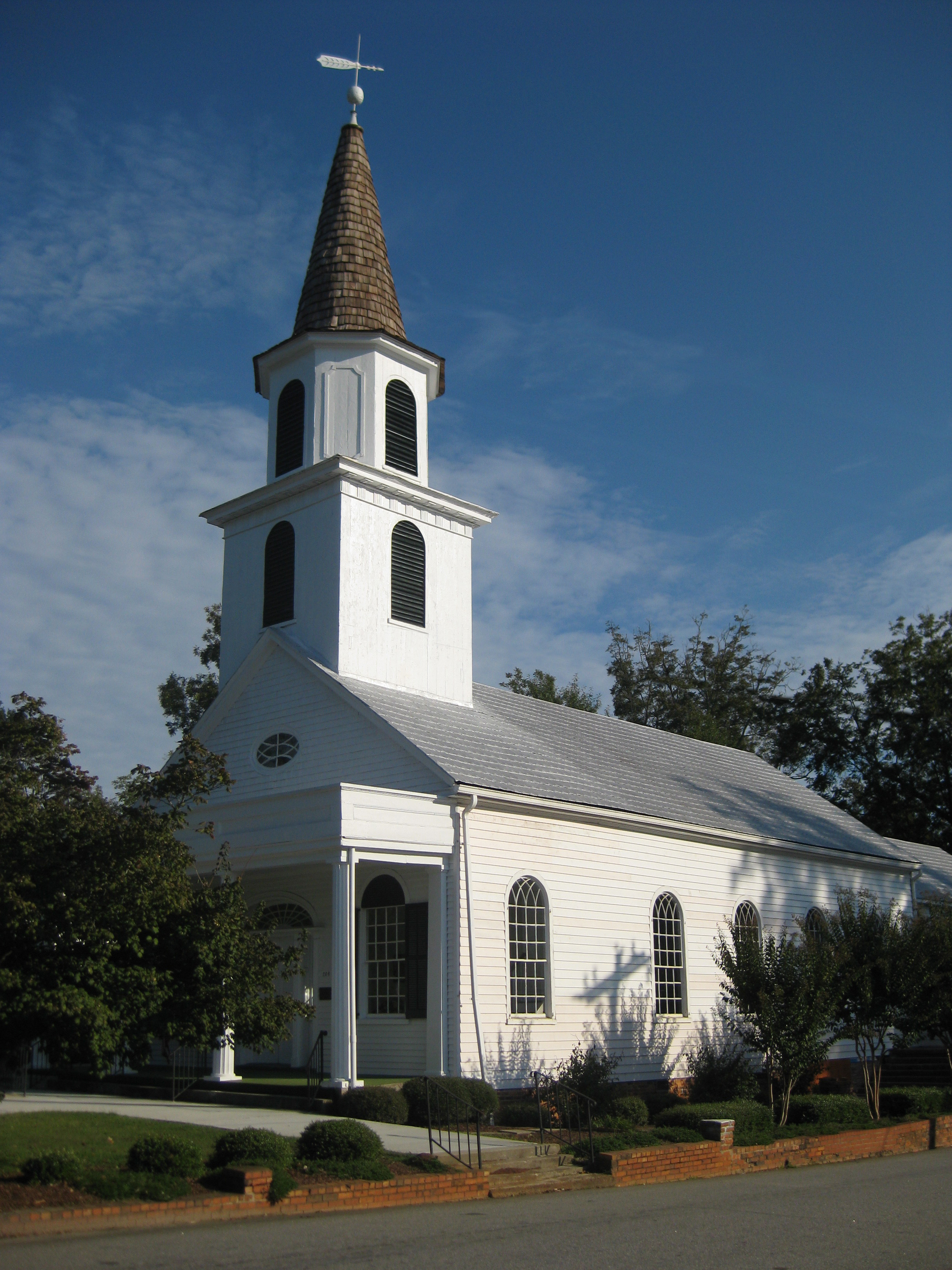 Presbyterian church building in Washington, Wilkes County, Georgia, has been in use since 1826 and is listed with the National Register of Historic Places.